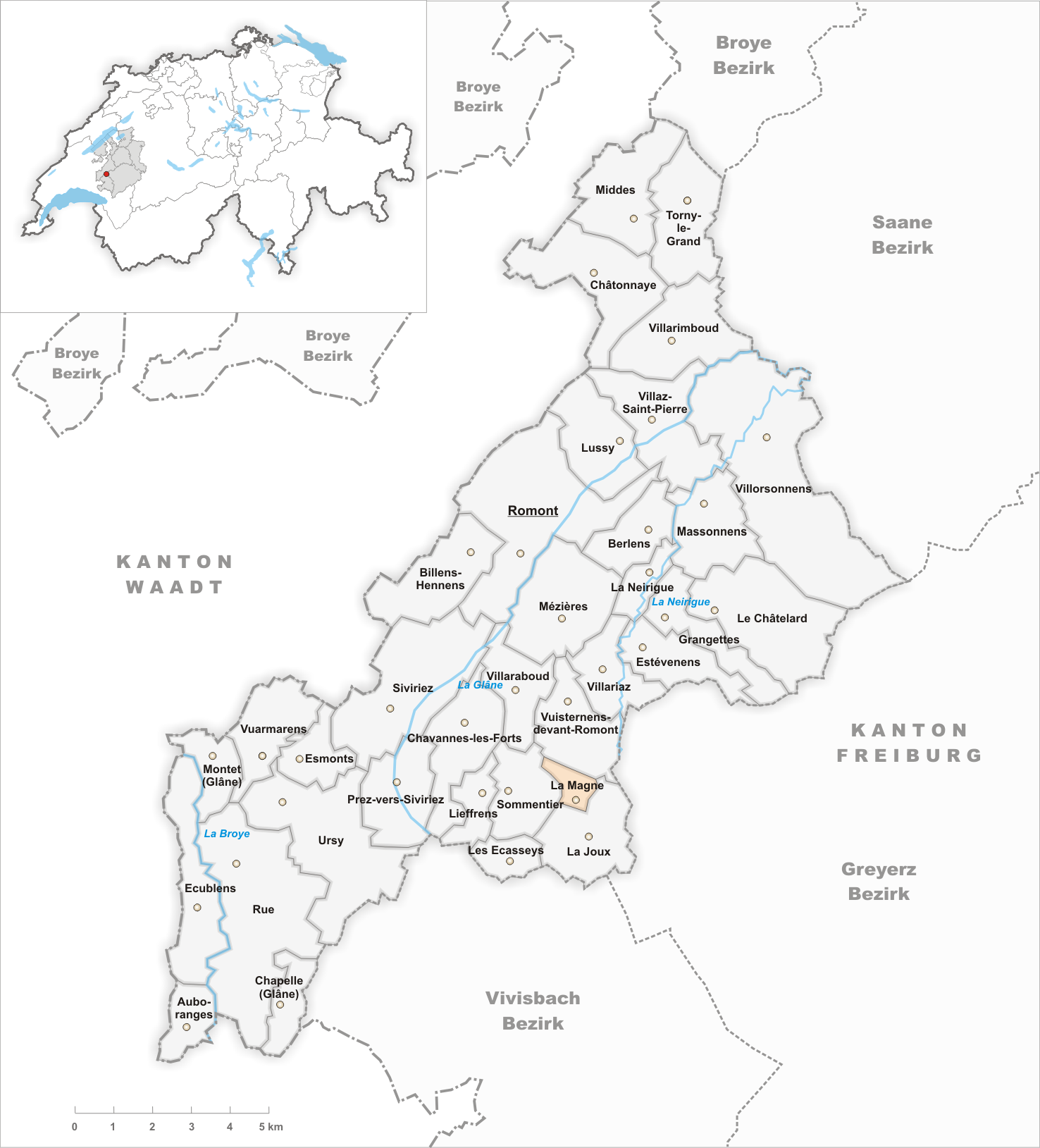 Municipality La Magne Artist: Tschubby